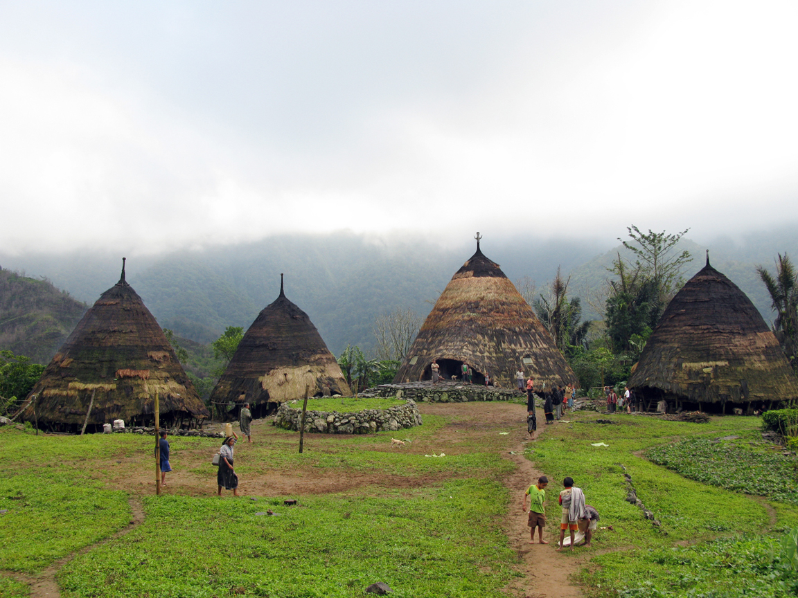 Remote village hidden by the mist. Manggarai - Flores Island .... The village name is Wae Rebo.